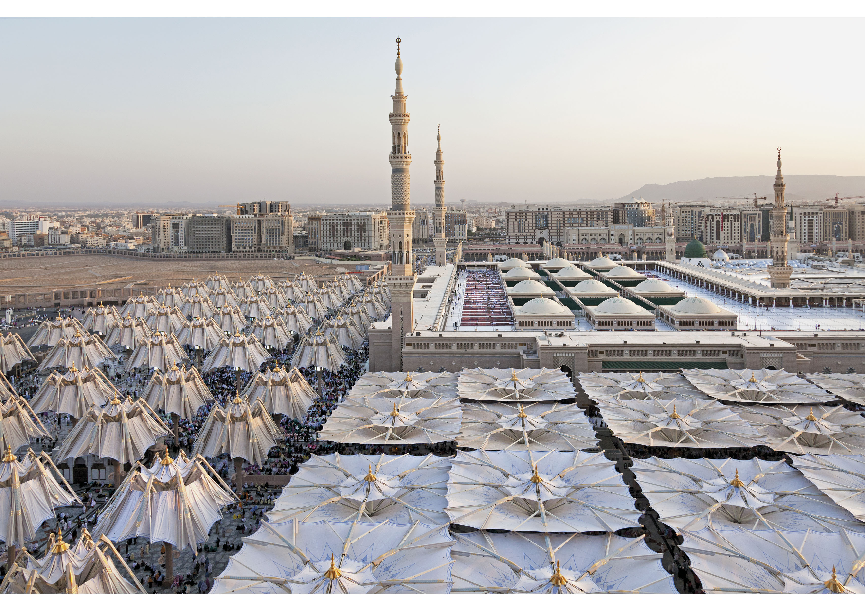 Shading Project for the Piazza of the Holy Prophet's Mosque in Madinah: 250 retractable umbrellas were placed in groups of 2 to 15 units, covering an area of 150,000 m² and providing shade for 300,000 pilgrims.